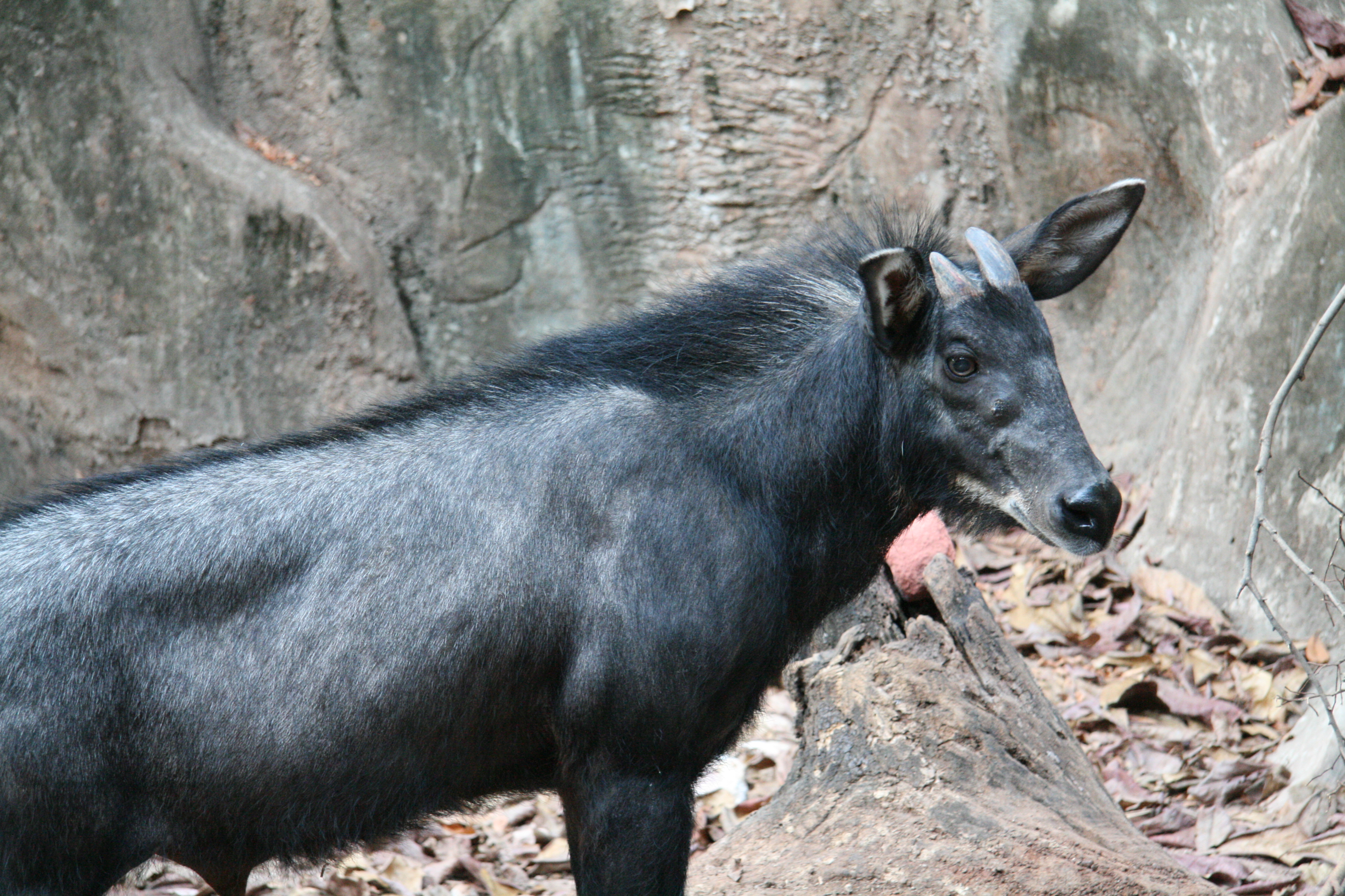 A serow (Capricornis sumatraensis). Picture taken at Dusit Zoo, Bangkok, Thailand.